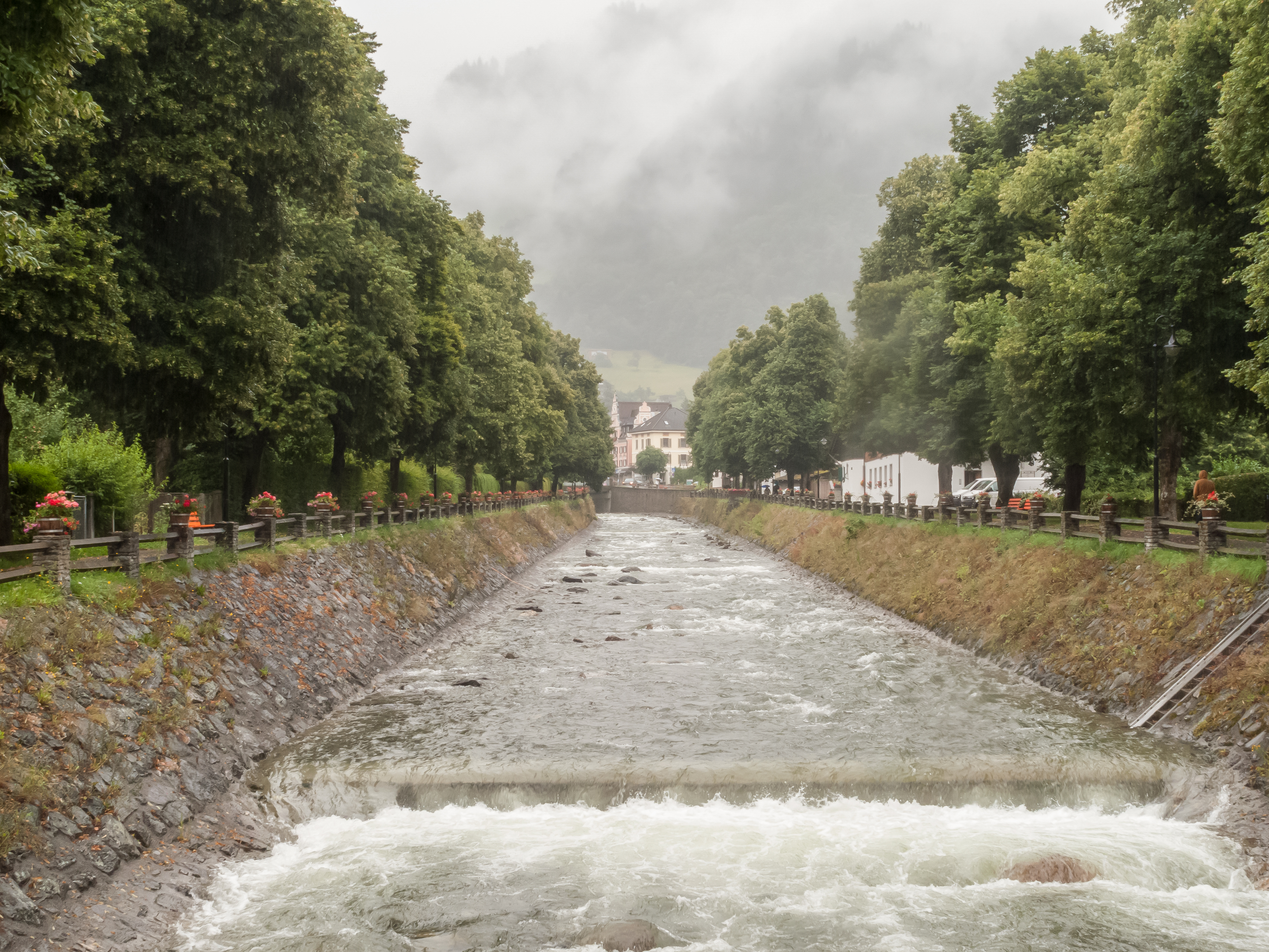 Schruns, creek: die Litz